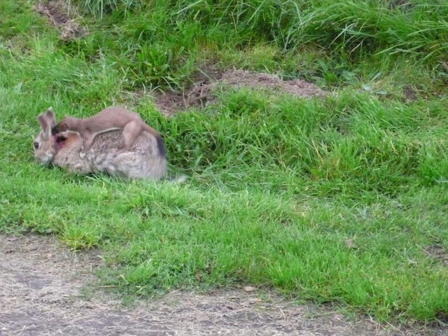 Stoat killing a rabbit (1) This photo was taken shortly after the stoat first attacked the rabbit. The rabbit is desperately trying to get the stoat off its back, hence the blurring caused by the movement. The stoat's teeth are sunk deep into the back of the rabbit's neck. The attack took place in the middle of a quiet road and the stoat dragged the much bigger squealing rabbit into the grass.